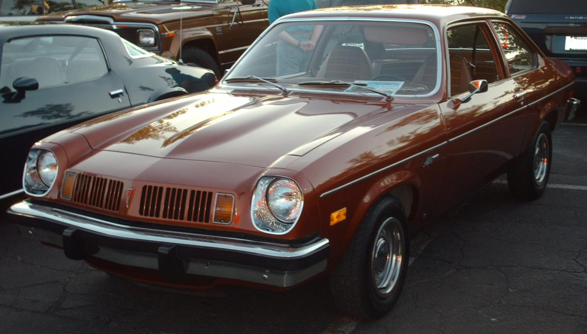 1971-1975 Pontiac Astre photographed in Montreal, Quebec, Canada at Gibeau Orange Julep.